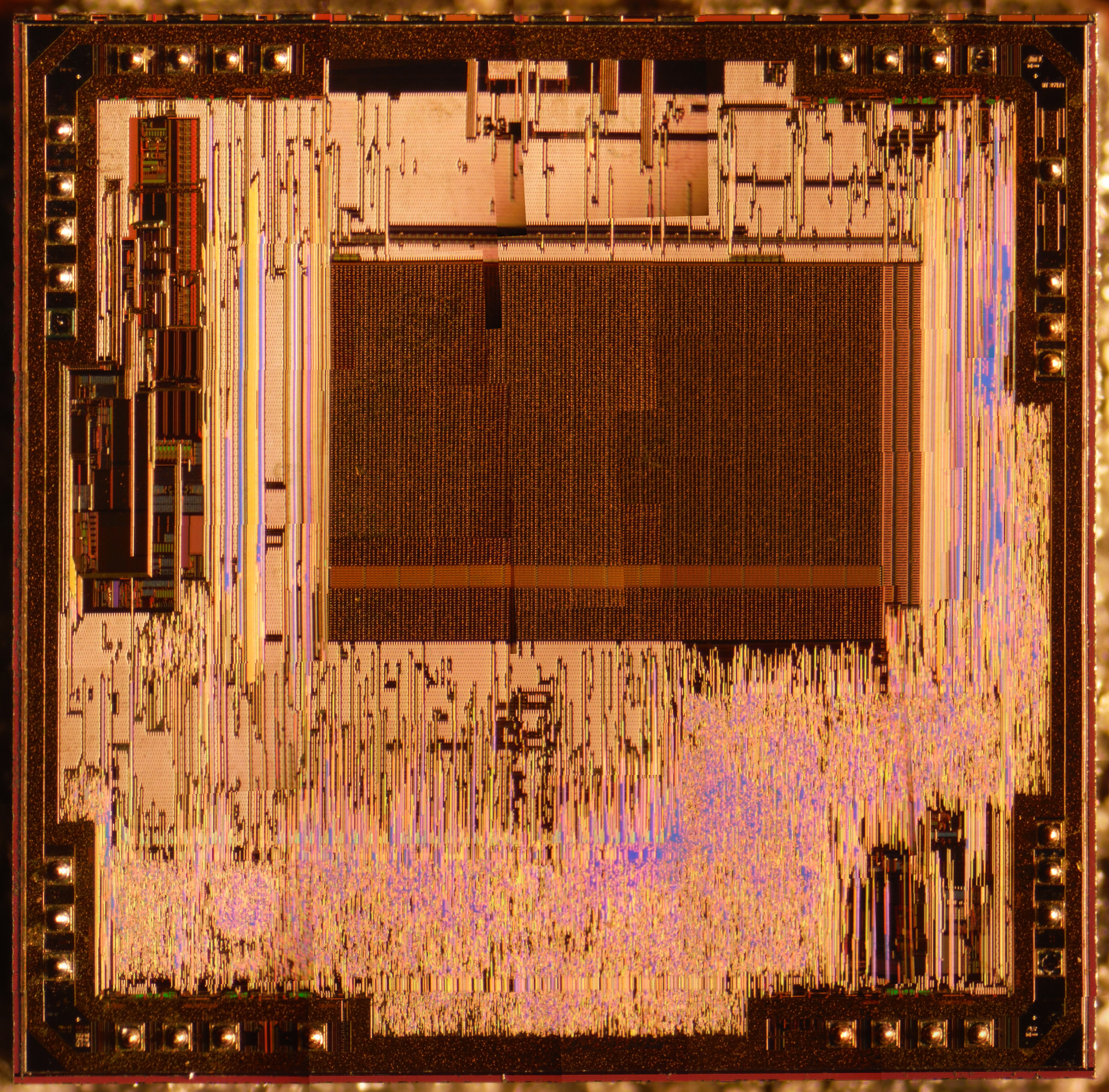 MEGA328P die